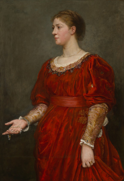 Dame Madge Kendal by Valentine Cameron Prinsep c. 1880